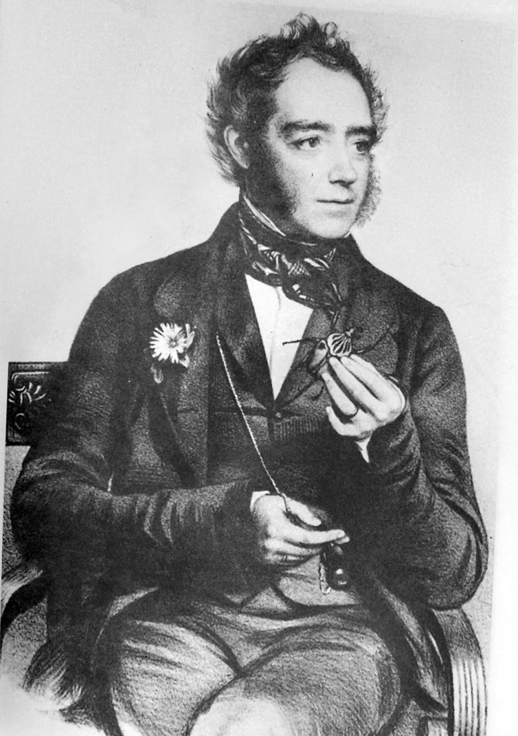 John Obadiah Westwood (22 December 1805 – 2 January 1893) Reprinted in Subba Rao, BR (1998) History of entomology in India. Institution of Agricultural Techologists, Bangalore.